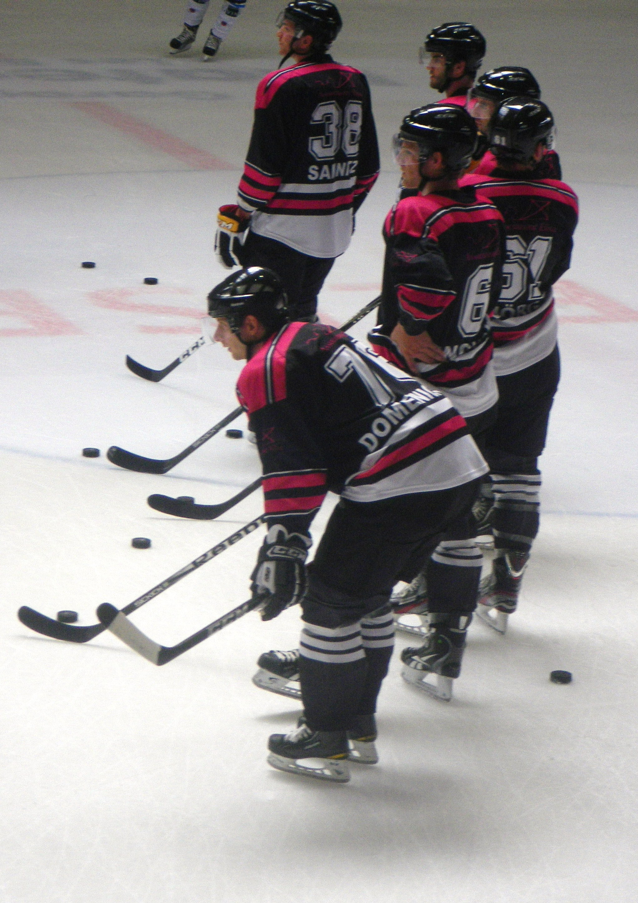 Hnat Domenichelli, canadian ice hockey player with HC Lugano.